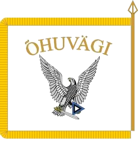 Flag of the Estonian Air Force